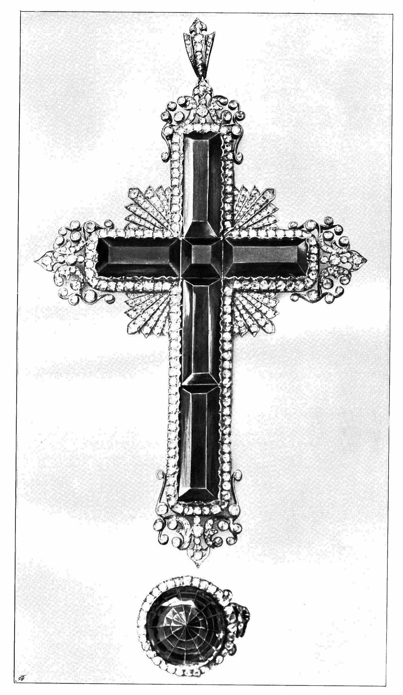 This cross donated Pope Pius X to count Gyula Zichy, bishop of Pécs